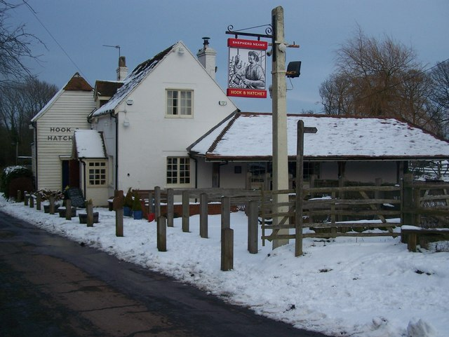 Hook and Hatchet Pub, Hucking White building and white roof now ! On Church Road, many icy roads around here. Pub very quiet.